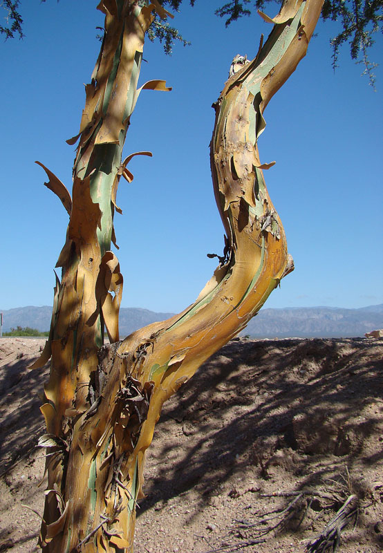 The peeling bark of Chañar. In context at